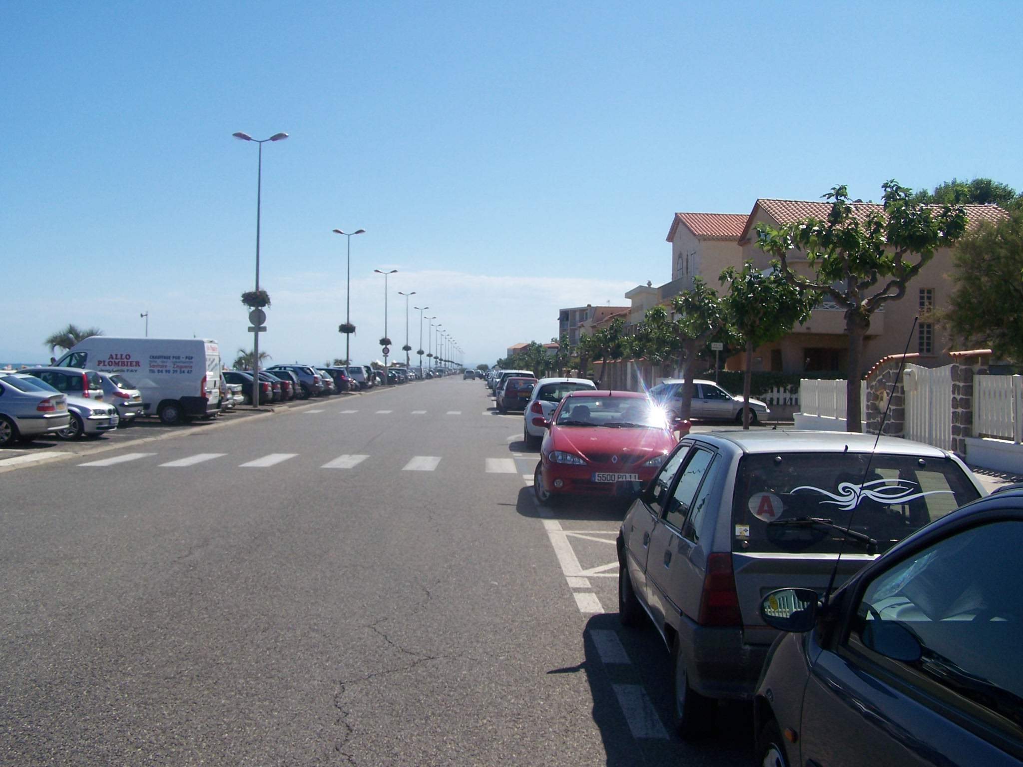 Front de mer in Narbonne-Plage in Aude, France.